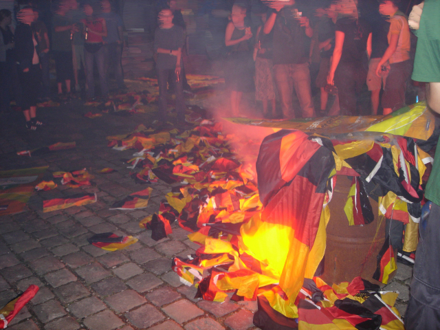 1021 German flags in yellow, black and red were burned in Nuremberg. This was justified by a "national symbol which has the function from exclusion" or for an exclusion based on national unity "Enforced by a constitution and its police, in order to gain a better standard of living quality." From Wikipedia: "Under German criminal code (§90a Strafgesetzbuch (StGB)) it is illegal to revile or damage the German federal flag as well as any flags of its states in public. Offenders can be fined or sentenced for a maximum of three years in prison. Offenders can be fined or sentenced for a maximum of five years in prison if the act was intentionally used to support the eradication of the Federal Republic of Germany or to violate constitutional rights. Actual convictions because of a violation of the criminal code need to be balanced against the constitutional right of the freedom of expressions, as ruled multiple times by German's constitutional court. As for flags of foreign countries, it is illegal to damage or revile them, if they are shown publicly by tradition, event or routinely by representatives of the foreign entity (§104 StGB). On the other hand it is not illegal to desecrate such flags that serve no official purpose (especially including any the one willing to desecrate them brings by himself for that purpose). During the 2006 World Cup the anti-German German musician Torsun (half of the group Egotronic) recorded a techno cover of the song "Ten German Bombers". The song and its accompanying YouTube video (featuring footage of German planes being shot down, the Wembley goal, a burning German flag, etc.) attracted media attention in Germany, as well as from the British tabloid News of the World. The song was eventually included in the World Cup themed compilation Weltmeister Hits 2006."